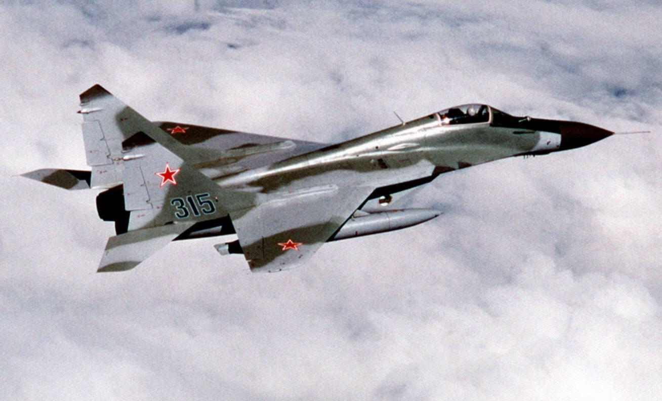 A Soviet Mikoyan-Gurevich MiG-29 aircraft over Alaska (USA) en route to an air show in British Columbia (Canada), on 1 August 1989.